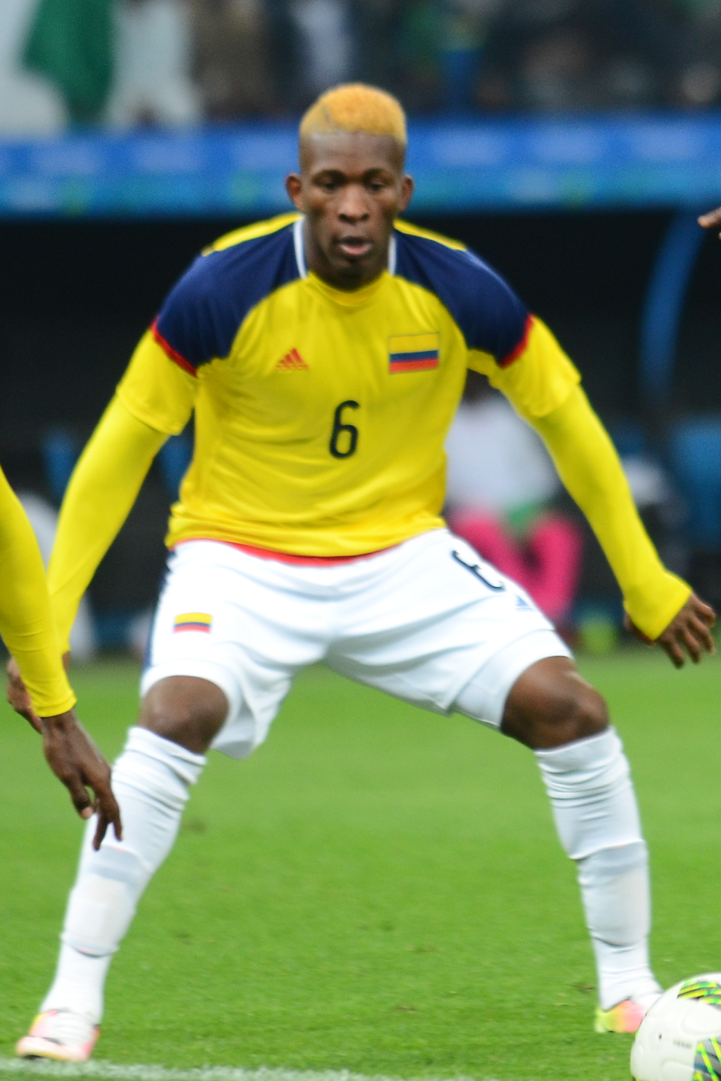 São Paulo - Colômbia vence a Nigéria por 2x0 na Arena Corinthians (Rovena Rosa/Agência Brasil)